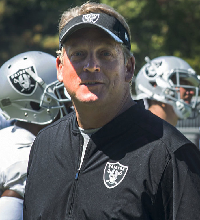 29 Jul 2016: Travis AFB Airmen were invited to the Oakland Raiders training camp held in Napa, CA. Service members from all branches of the military were invited to watch the team’s work out, run plays, and interact with players. They also signed autographs and took photos with the service members after the camp. Jon Condo, Long Snapper and Jack Del Rio, Head Coach of the Oakland Raiders prepare for drills as the team finishes warm ups at their training facilities in Napa, CA. As an added bonus, the Raiders also held their Alumni Weekend where over 100 former Raiders were on hand for the training camp everywhere you looked there were legends of the game. (US AIR FORCE Photo by T.C. Perkins Jr.)